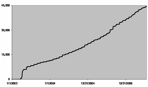 Chart created by myself using data from . See also Iraq Body Count project Casualties of the conflict in Iraq since 2003